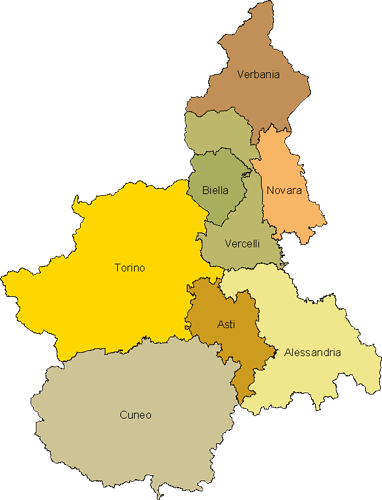 Schema dei Settori Escursionistici della Regione Piemonte suddiviso per Province